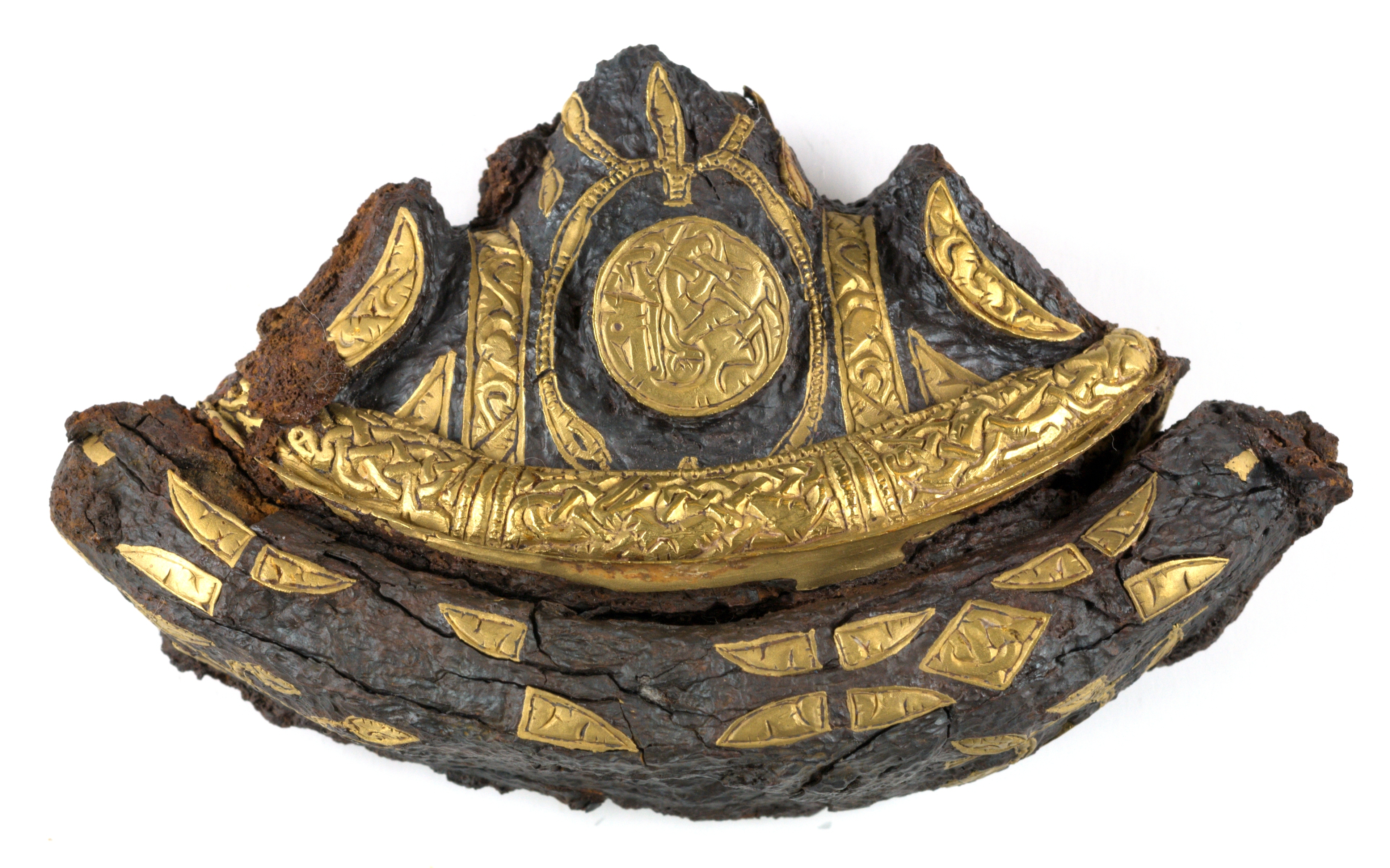 This 9th century sword pommel is inlaid with gold foil in the Trewhiddle style and was located as part of a significant hoard of Viking gold and silver in Bedale